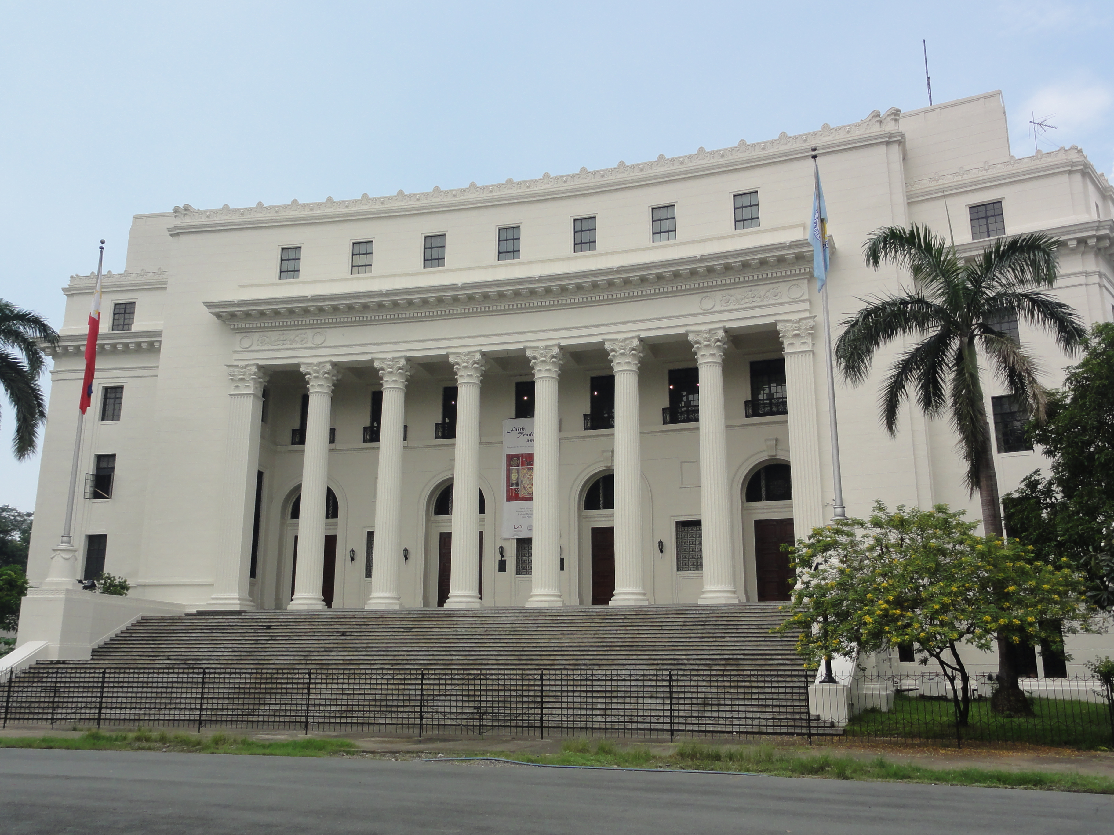 Front view of Manila's Old Finance Building, which now houses the extension of the National Museum.